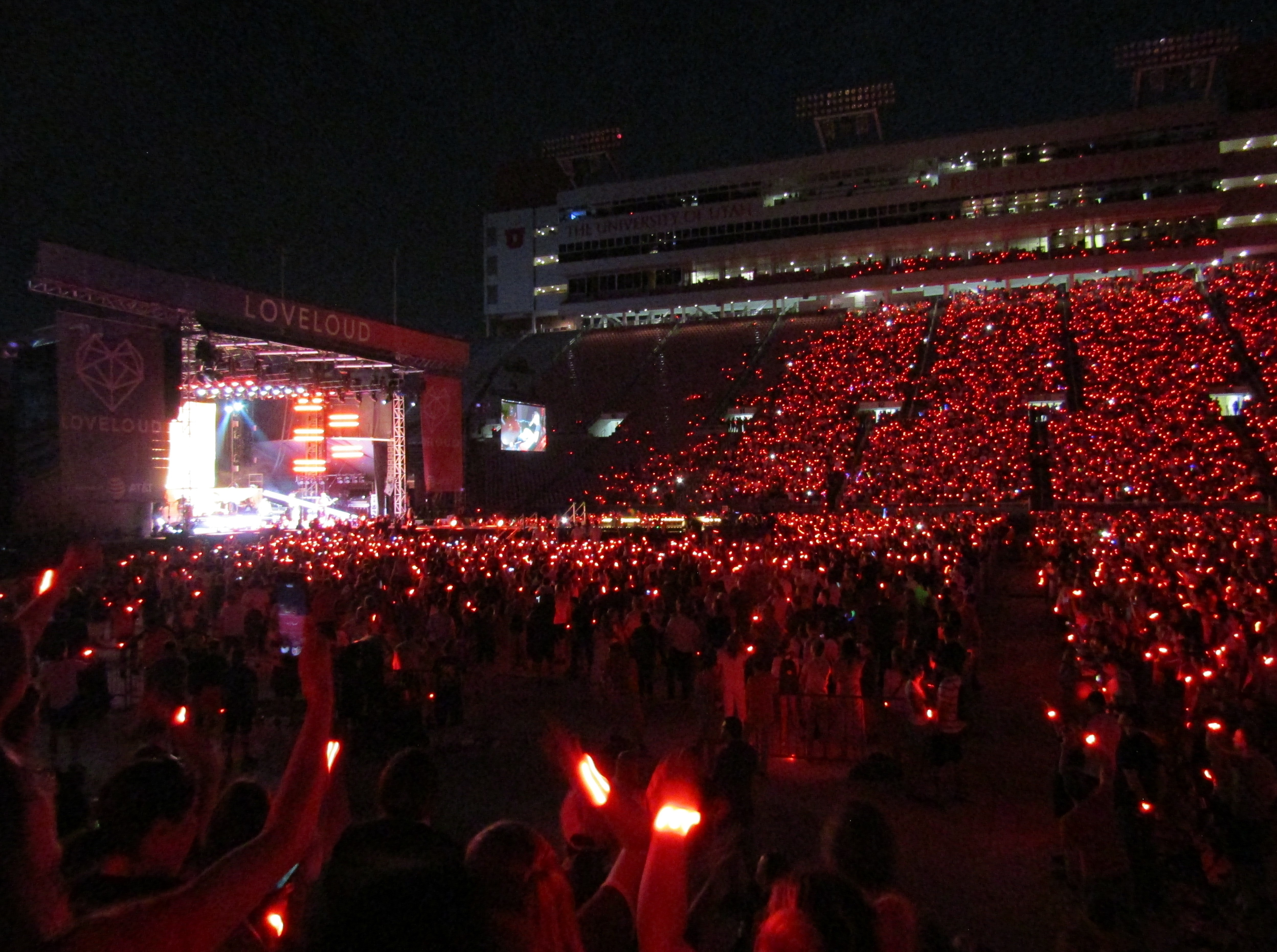 Imagine Dragons performing at LoveLoud 2018.